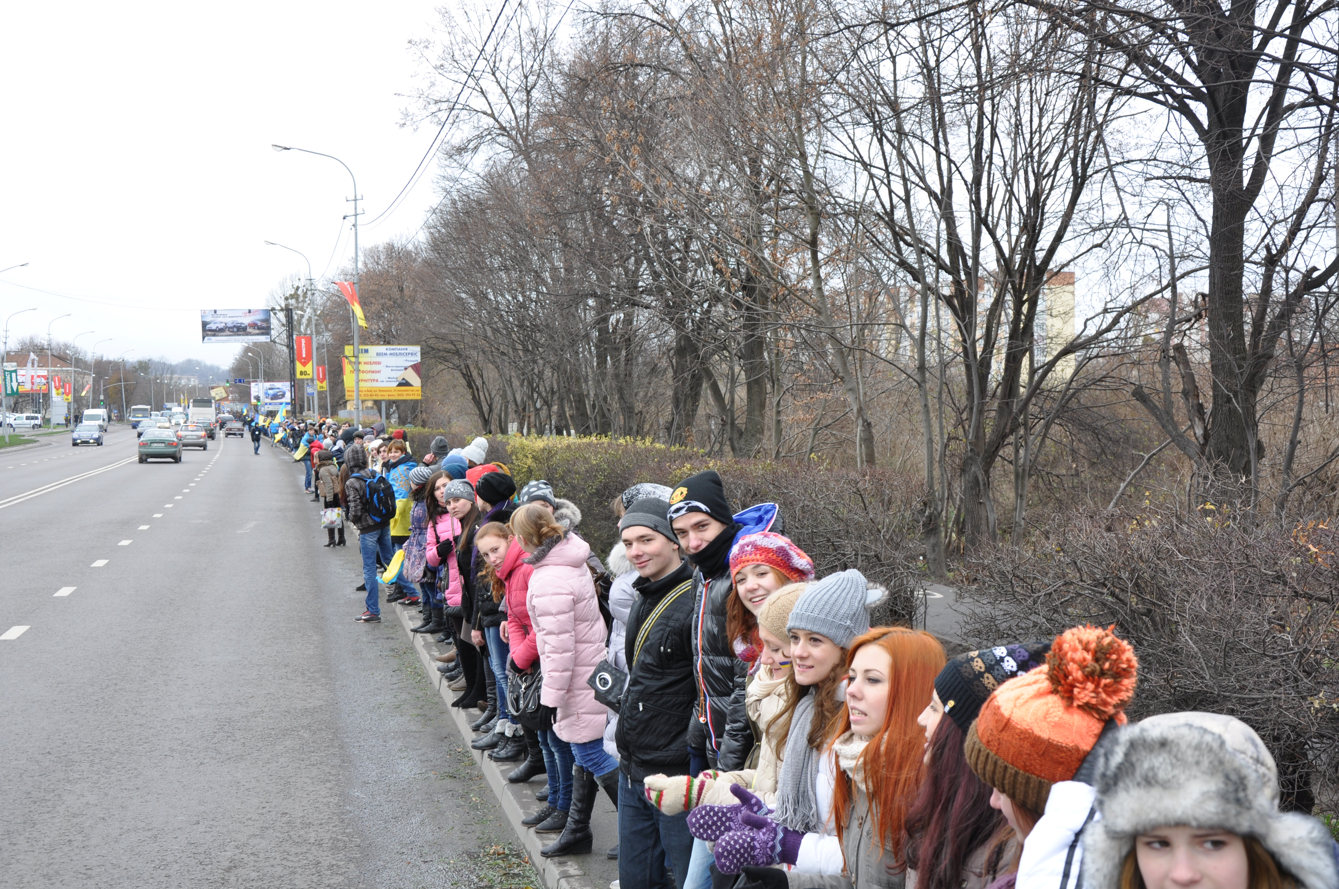 Human chain between Kyiv and the EU border.